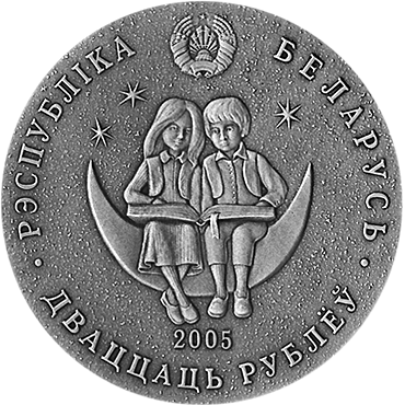 Belarus and the global community. Commemorative Coin "Snow karaleva"("Snow Queen")